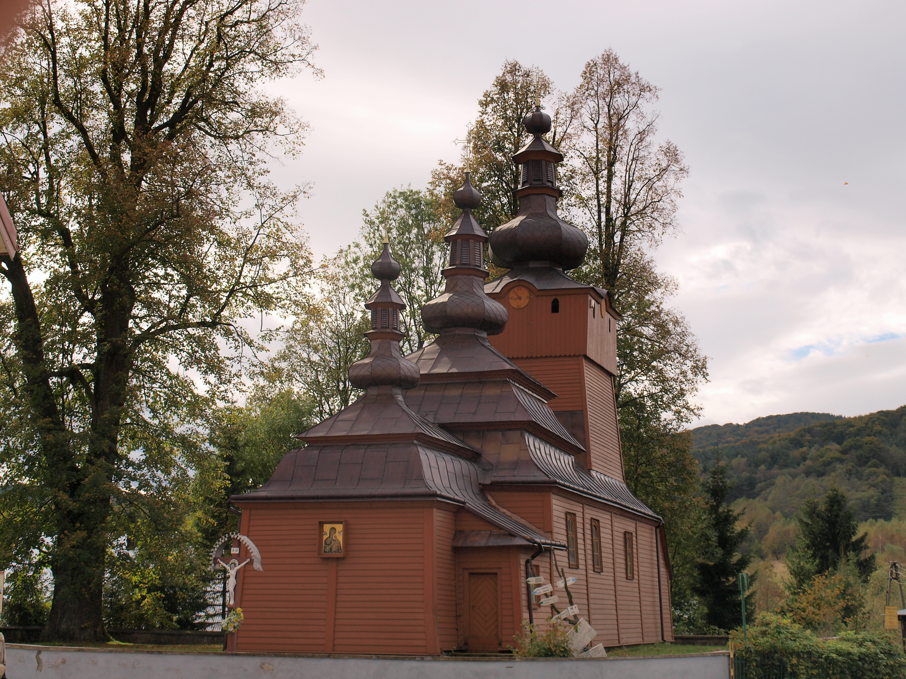 Wysowa-Zdrój - Orthodox church of Saint Michael the Archangel